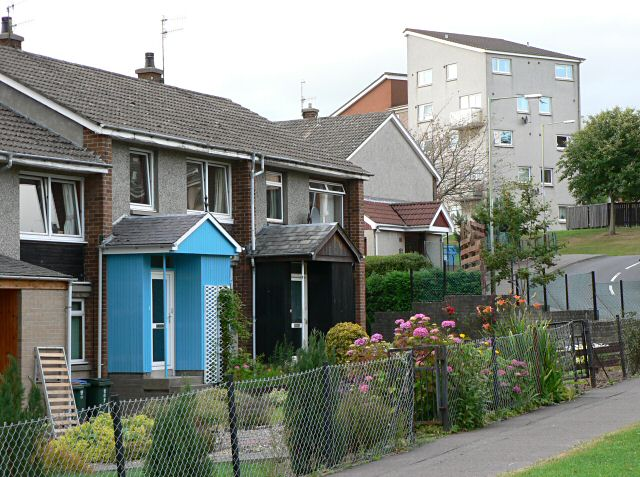 Terraced houses on Primrose Crescent in Tulloch, Perth and Kinross, Scotland